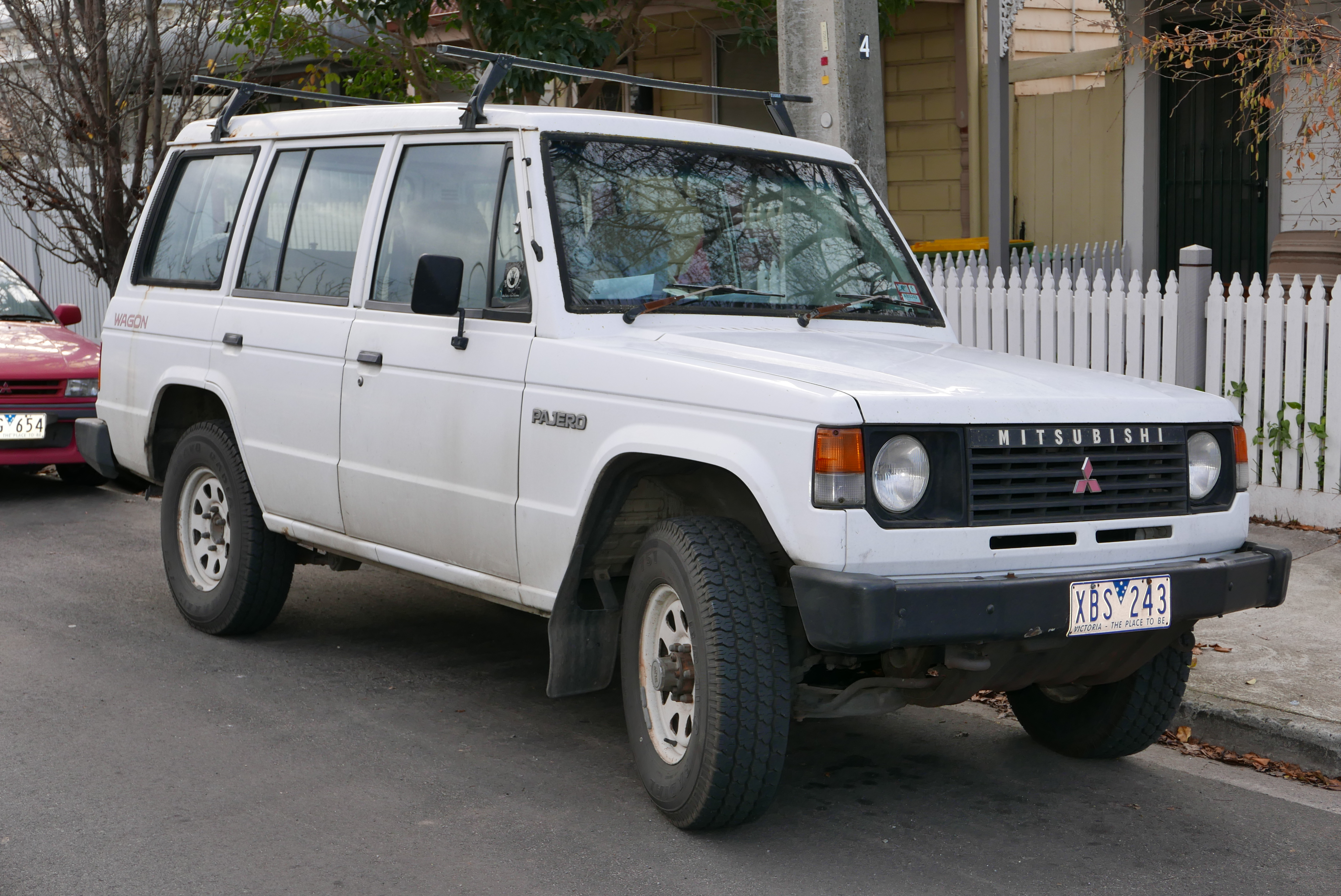 1986 Mitsubishi Pajero (NC) Commercial wagon. Photographed in Northcote, Victoria, Australia. Vehicle registration enquiry results Jurisdiction Victoria Registration XBS243 Chassis code NC3V45SL22000230 Engine code 4G54GH2117 Compliance date 1986-06 Year of manufacture 1986